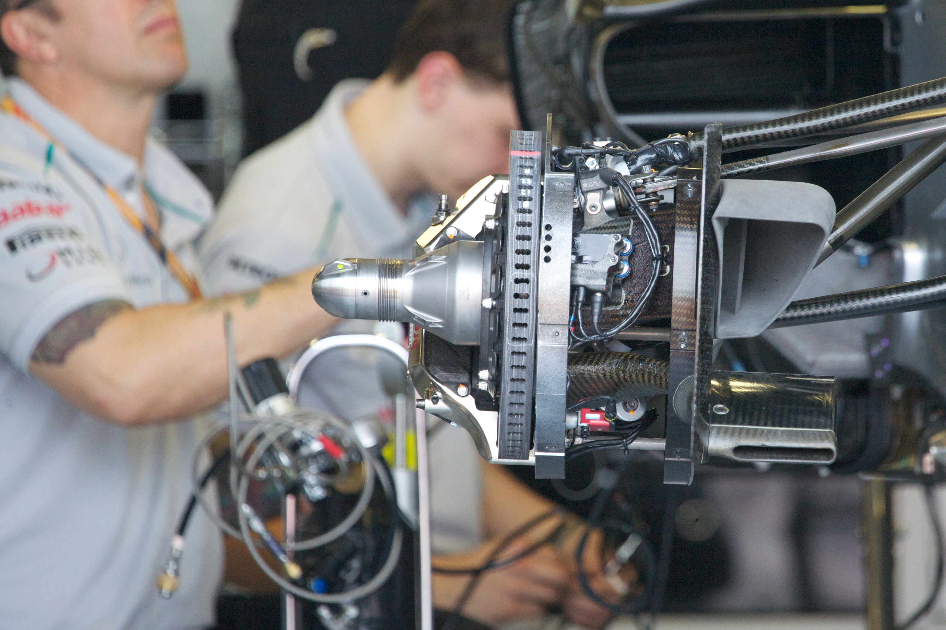 2011 Canadian Grand Prix